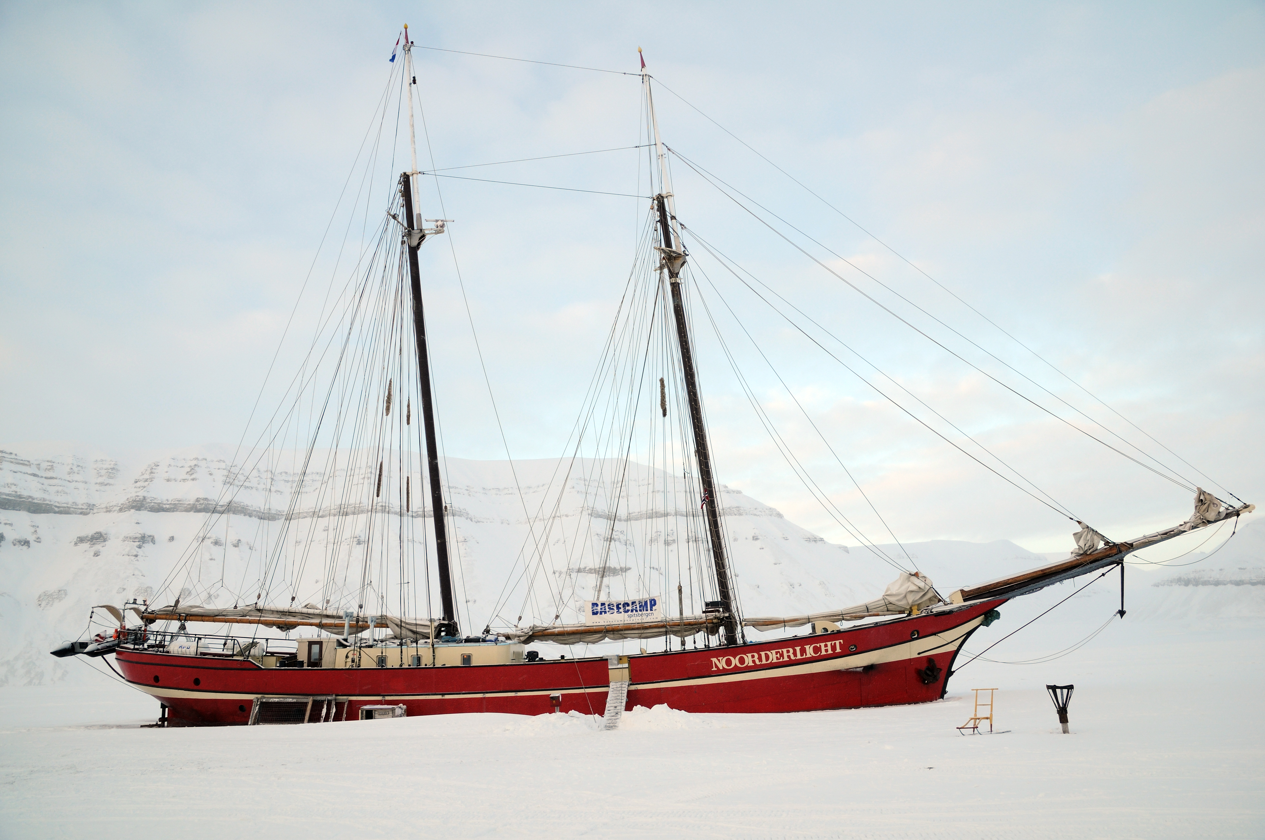 Sailboat stuck in the ice in the Tempel fjord. This boat is actually working as a hotel and a restaurant. Loved their pizza. Their homepage.